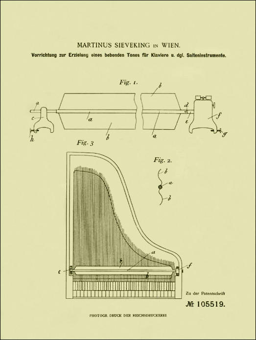 A mechanical device invented by Dutch pianist Martinus Sieveking that will make a piano or other stringed instruments to make a quivering tone. Patented in Austria, no. 105519 on 1898-03-06.